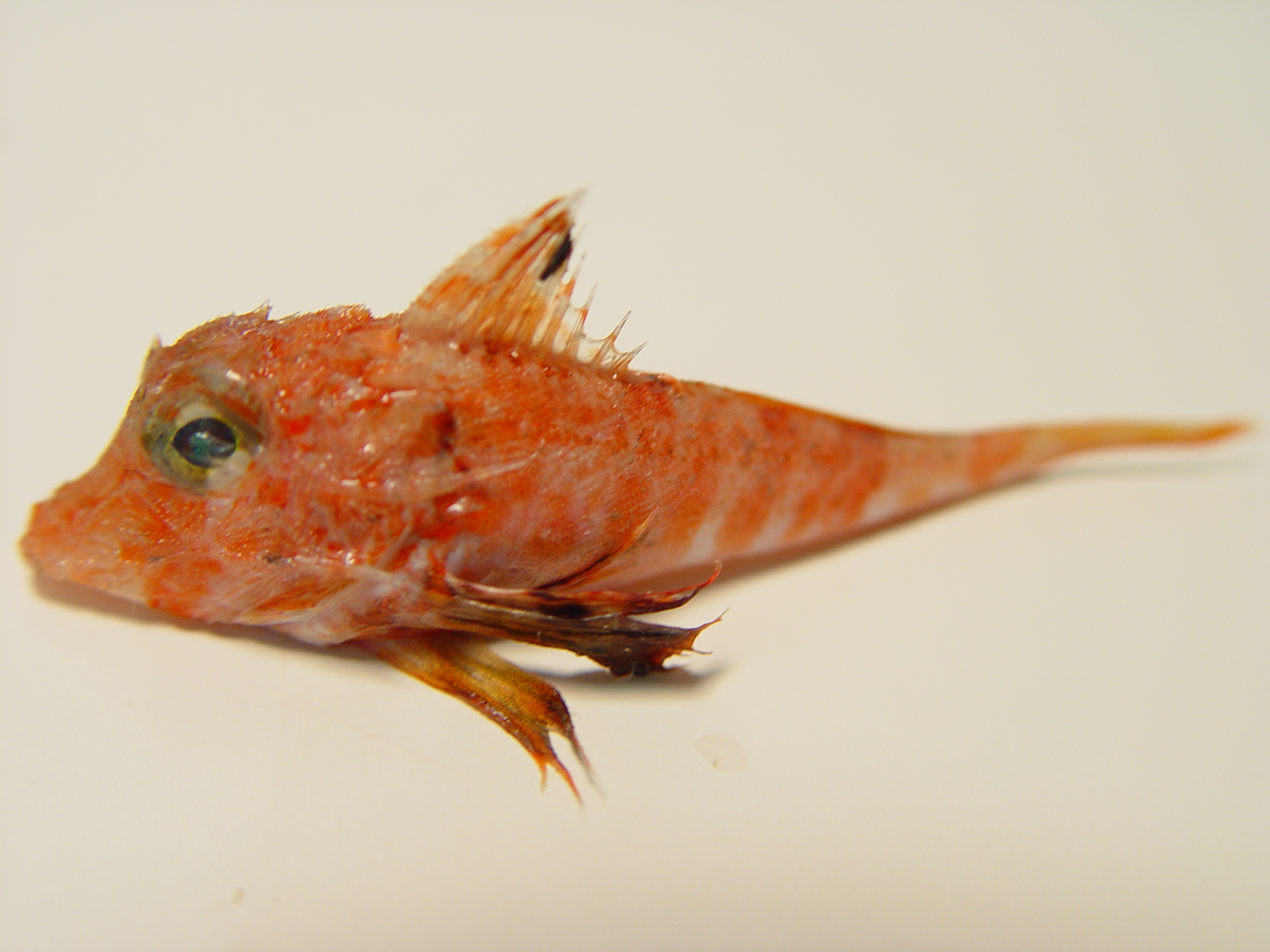 Shortfin searobin ( Bellator brachychir ). Gulf of Mexico.